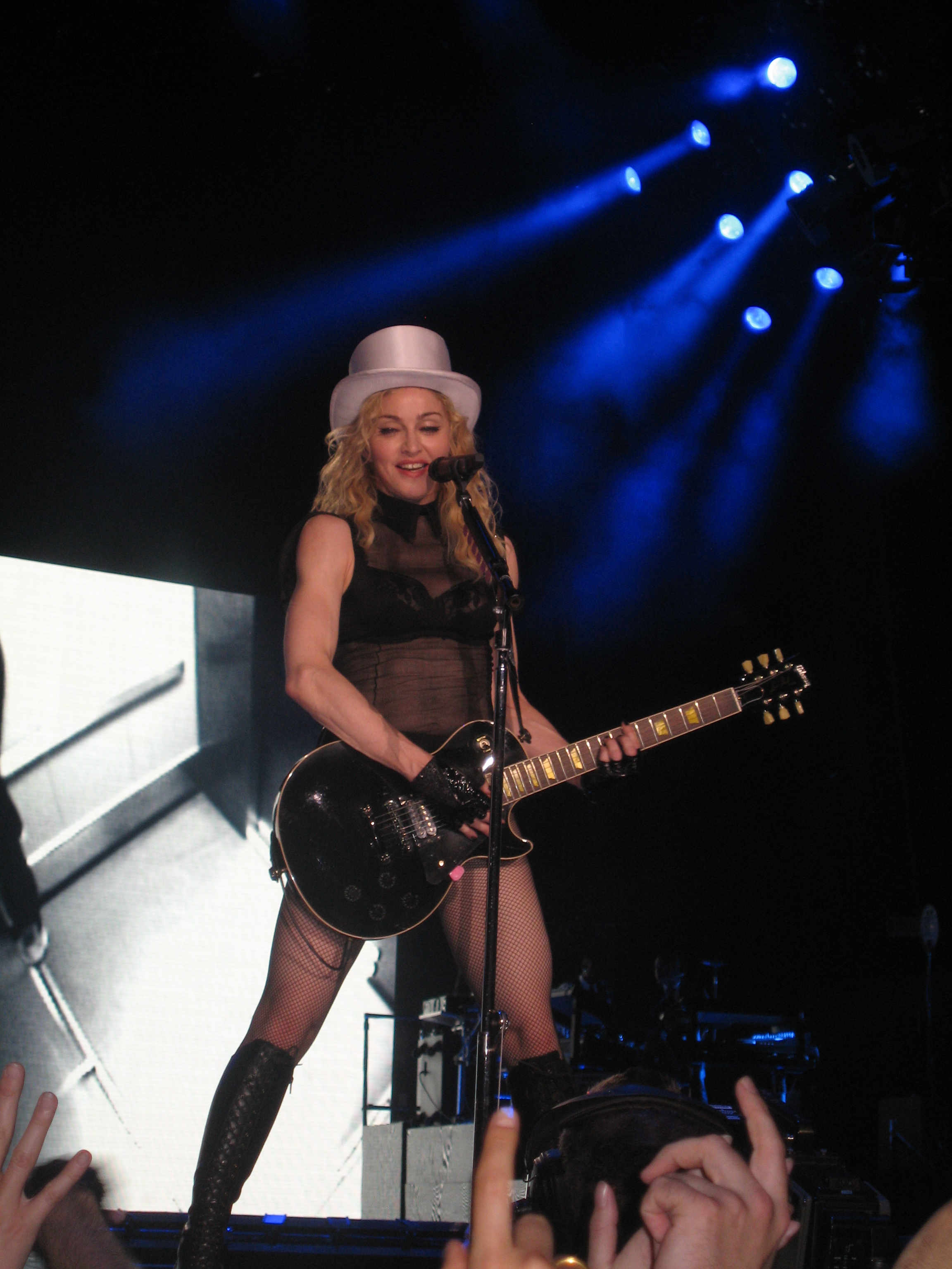 Picture taken at the concert